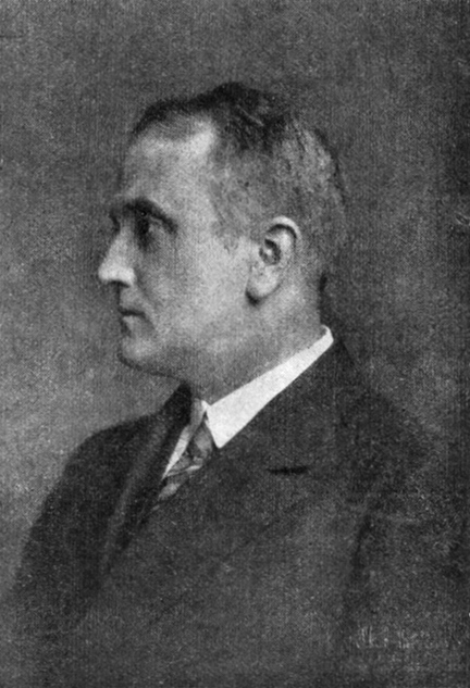 Jiří Horák (1884-1975) was a Czech linguist and ethnologists